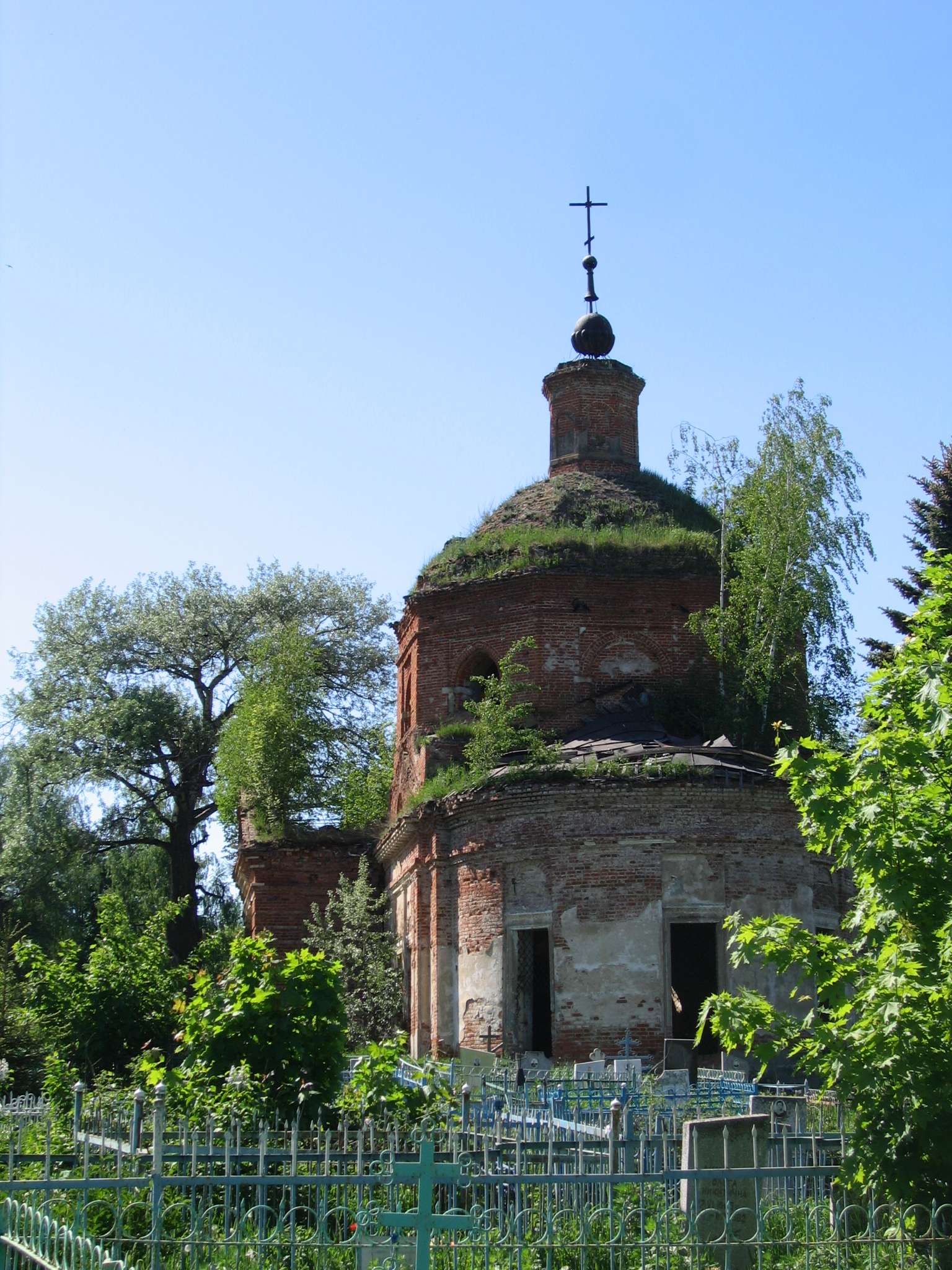 Vsehsvyatskaya church in Krapivna